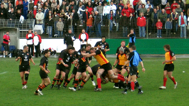 World Cup qualification Germany vs. Belgium. Sunday 29/04/2006 in Hannover/Germany